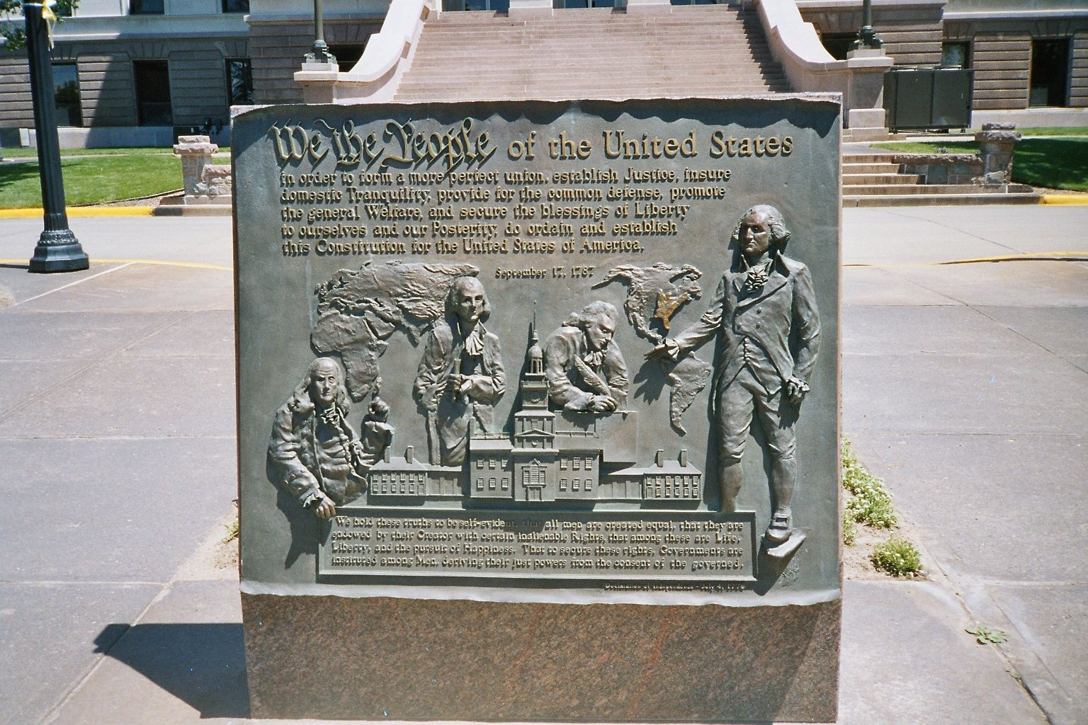 memorial plaque in the vicinity of the South Dakota State Capitol